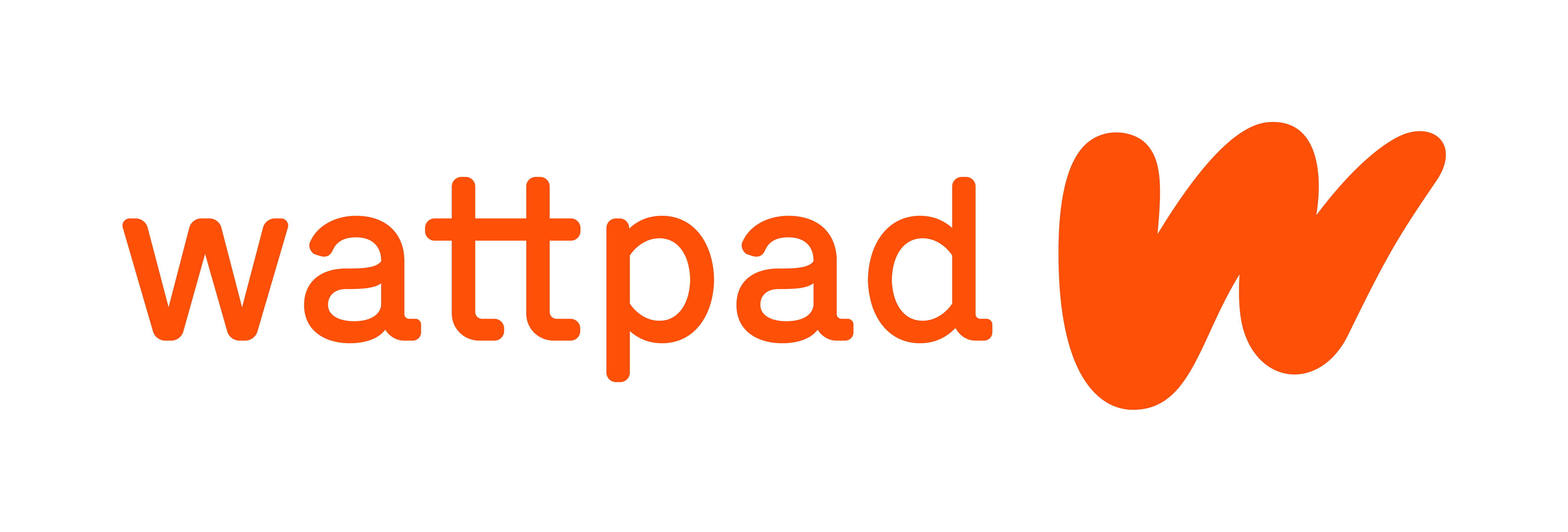 Logo of Wattpad